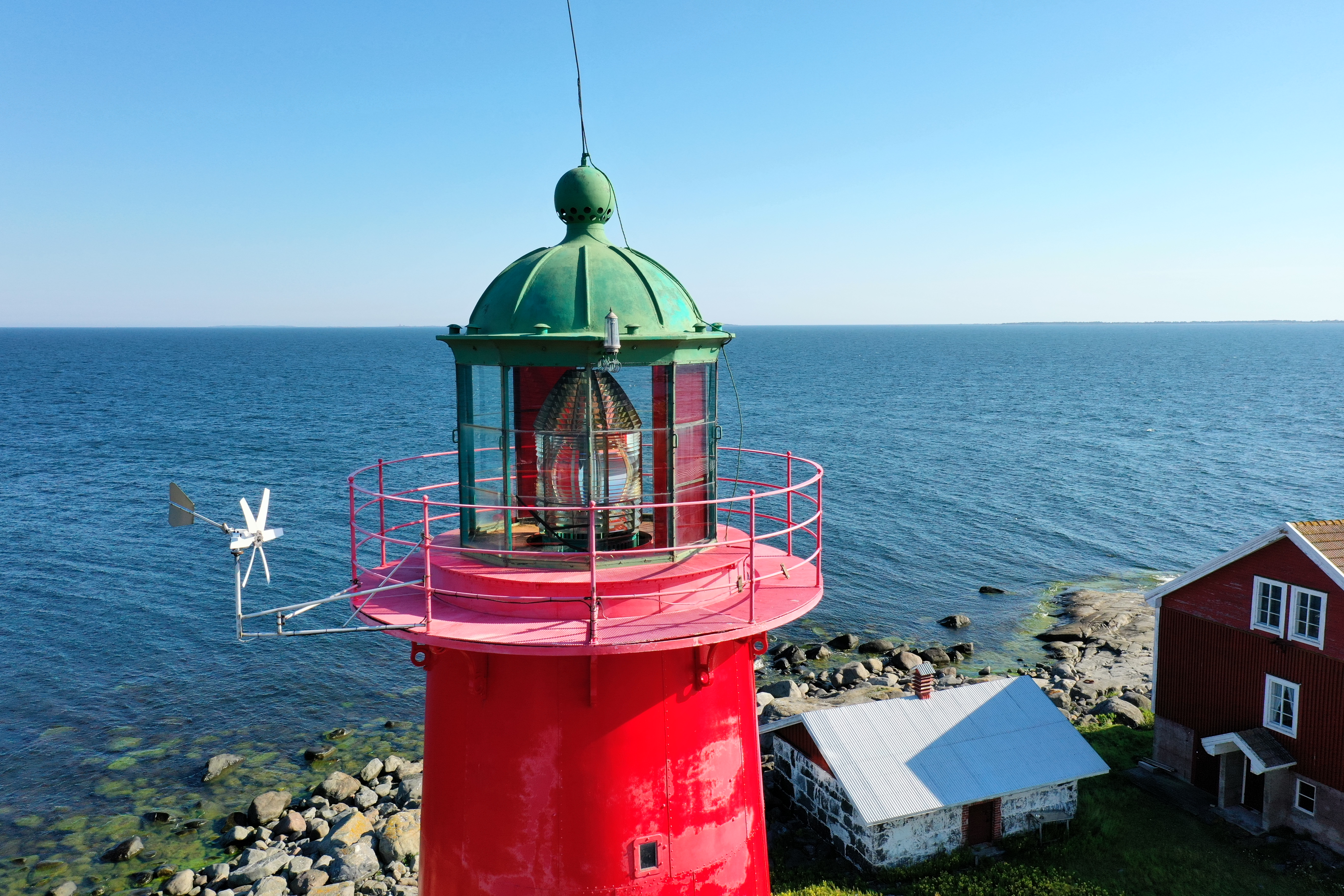 Lens of the Strömmingsbådan lighthouse on Strömmingsbådan islet in Malax, Finland.